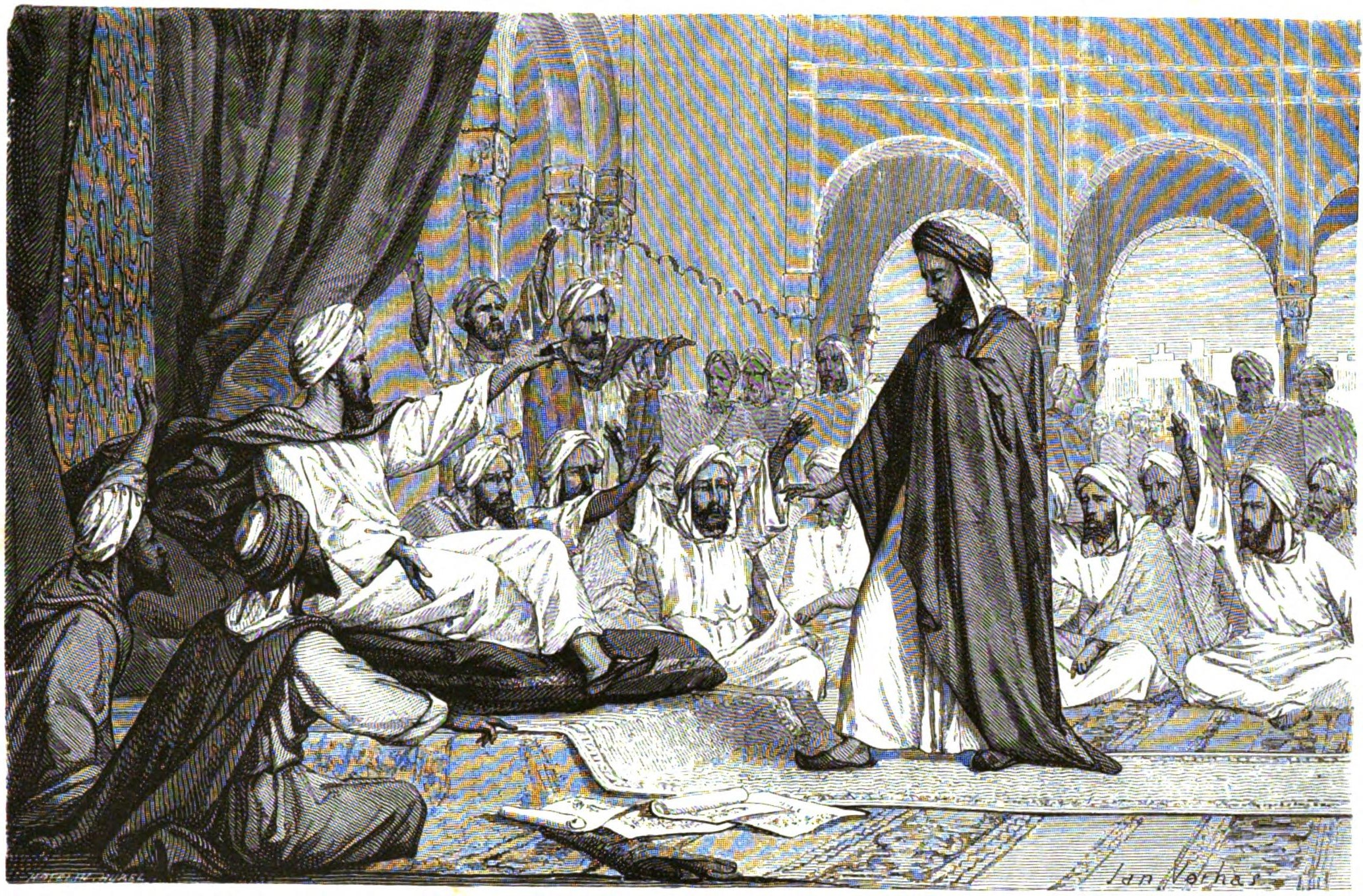 Averroes banished by Caliph Abu Yusuf Yaqub al-Mansur, illustrated in the work Vies Des Savants Illustrés Du Moyen Âge (1867). Throughout his life Averroes serves under the patronage of the Almohad caliphate, but during the brief period (starting in 1195) he was banished from court.